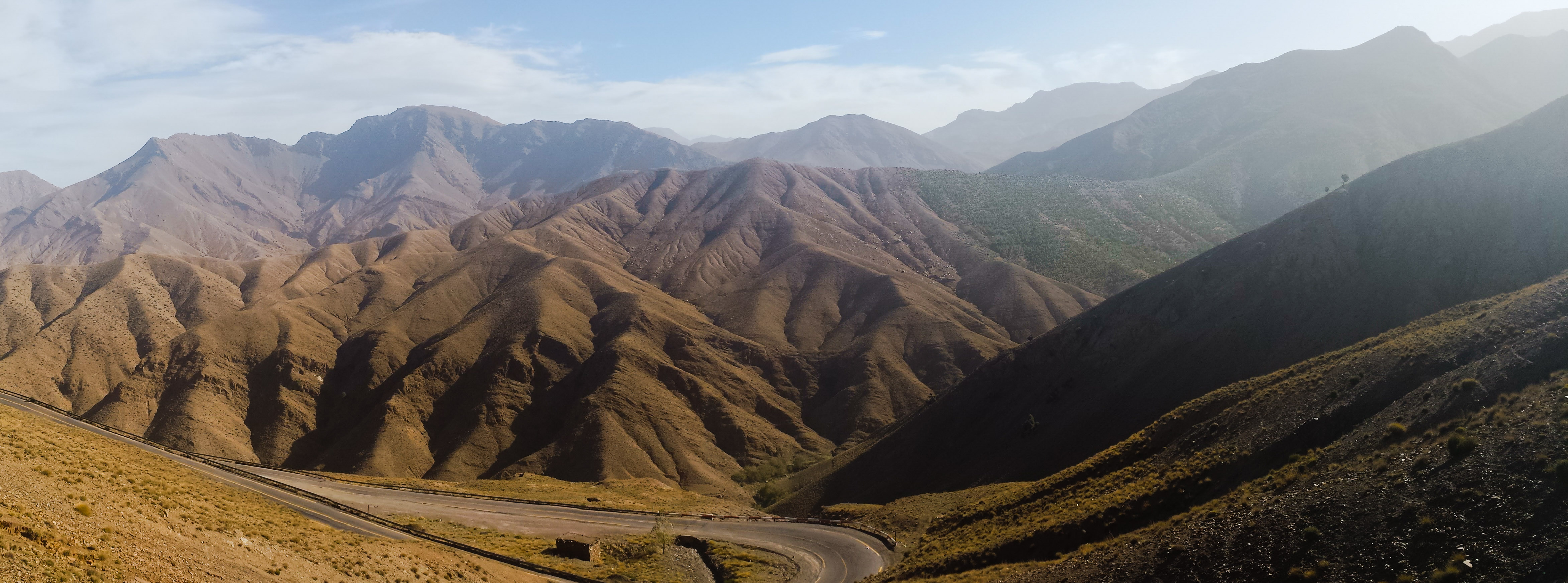 On the way to Aït Benhaddou. The Atlas Mountains is a mountain range across the northwestern stretch of Africa extending about 2,500 km through Algeria, Morocco and Tunisia.